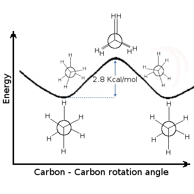 Ethane conformations